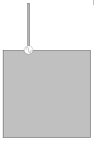 26 x 1 mm long monopole antenna on a 50 x 50 mm ground plane.